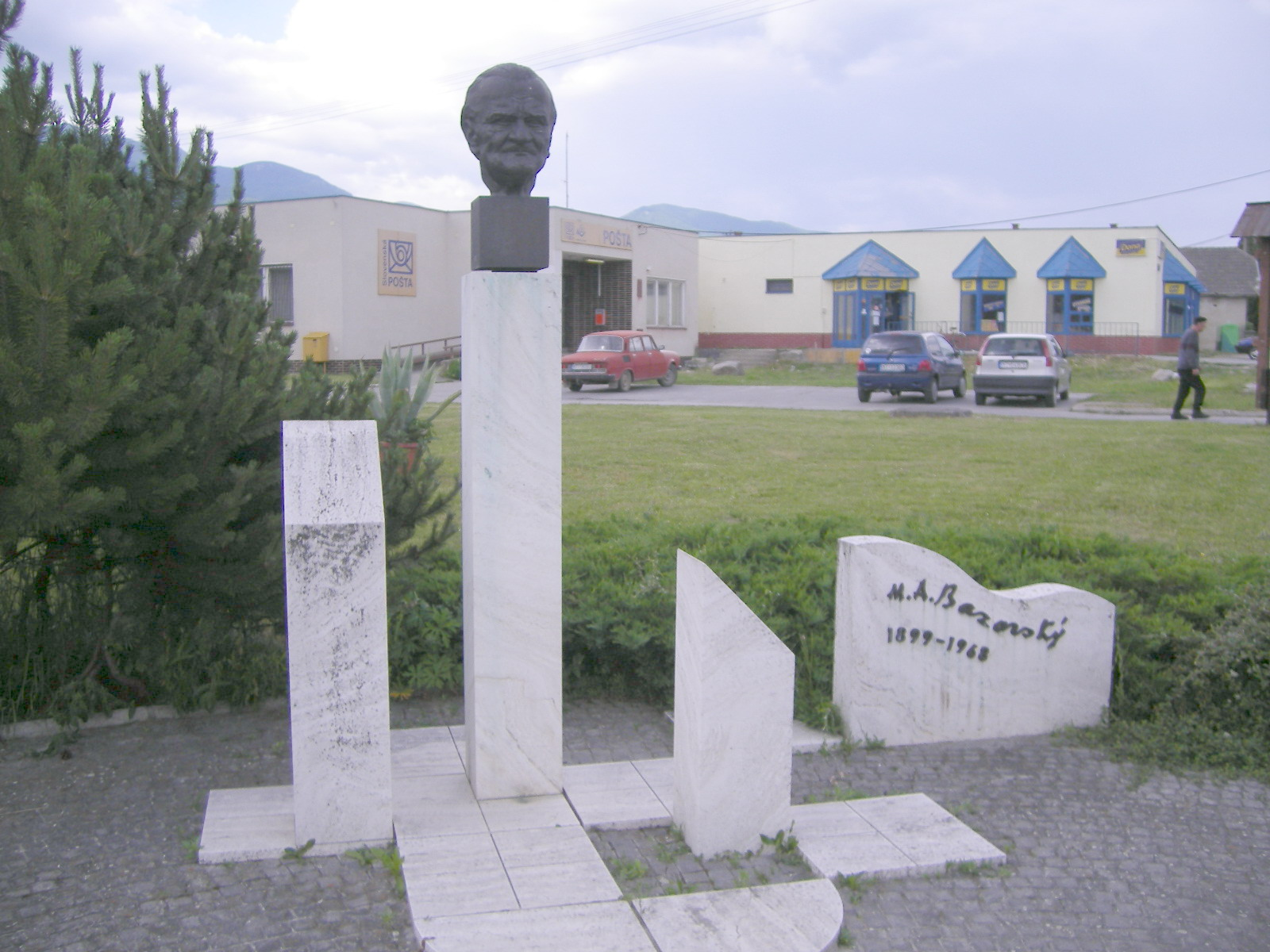 Turany - bust of painter M.A.Bazovský